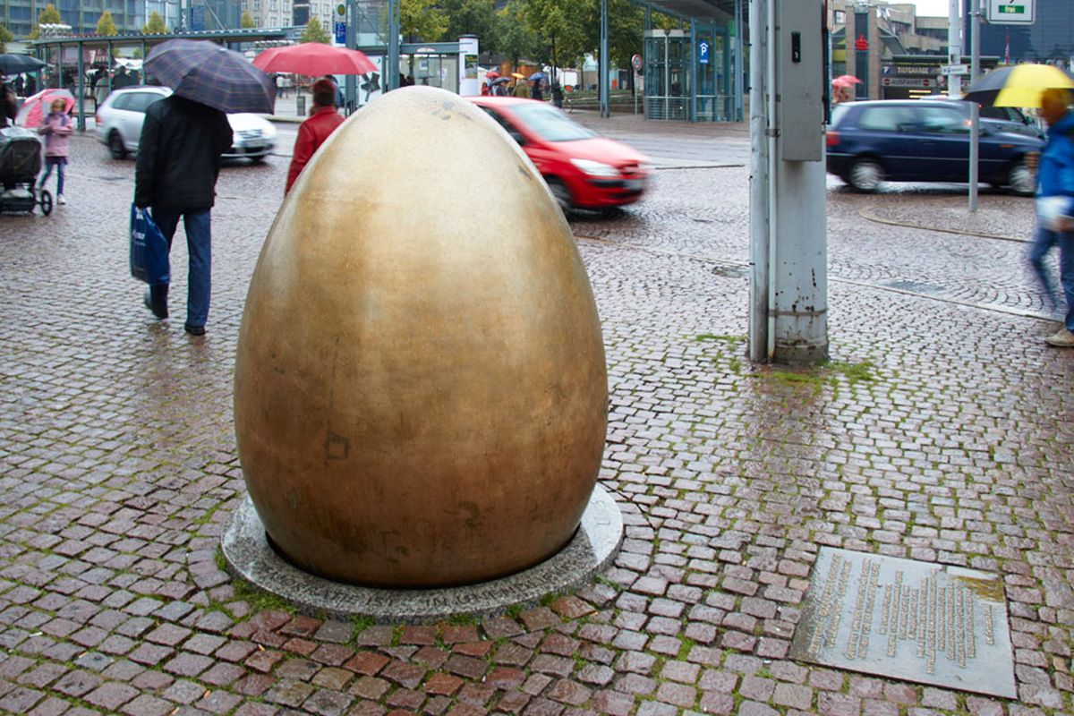 "Bell of Democracy" by artist Via Lewandowsky (Dresden/Berlin) at Augustusplatz in Leipzig